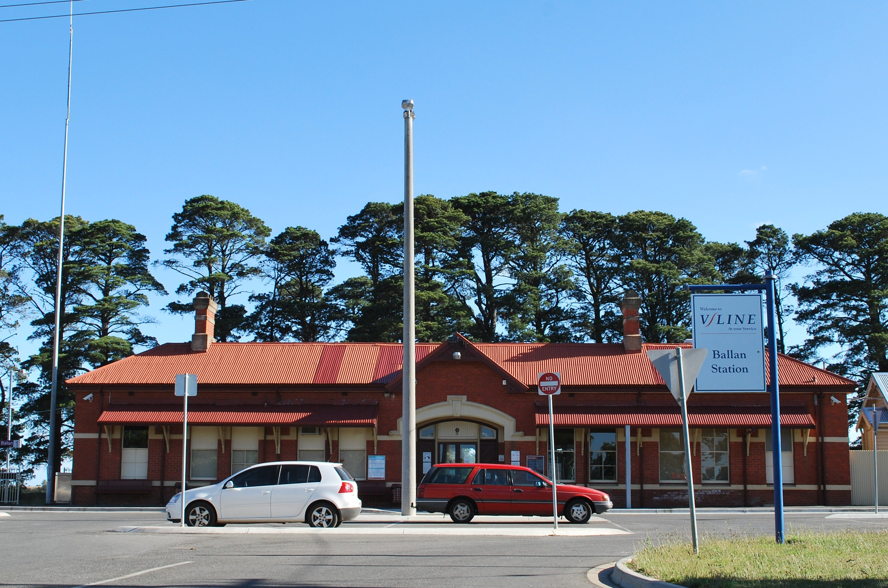 Train station at Ballan, Victoria